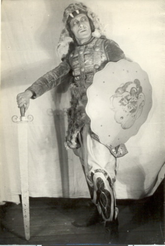 Ulvi Rajab as Siyavush. Azerbaijan State Dramatic Theatre